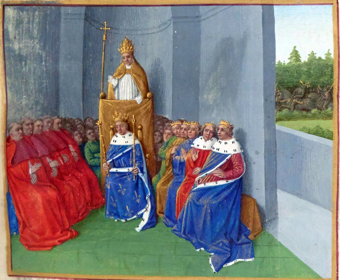 Pope Urban II preaching the First Crusade in the presence of Philip I before the assembly. An illustration from the Grand Chronicle of France, illuminated by Jean Fouquet, Tours, c. 1455-1460 Paris. Now in Department of Manuscripts, Paris, ID 6465, fol. 174 (Book of Philip I). Pope Urban II preaching the Crusade: 27 November 1095, at Clermont-Ferrand, before the council. Death of William II Rufus (in background to the right): William II Rufus, king of England, dead, killed by an arrow during a hunt in 1100.